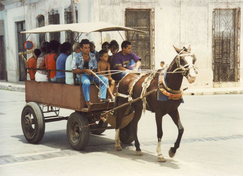 Horse transport in Cuba. Taken in 1994 near Varadero